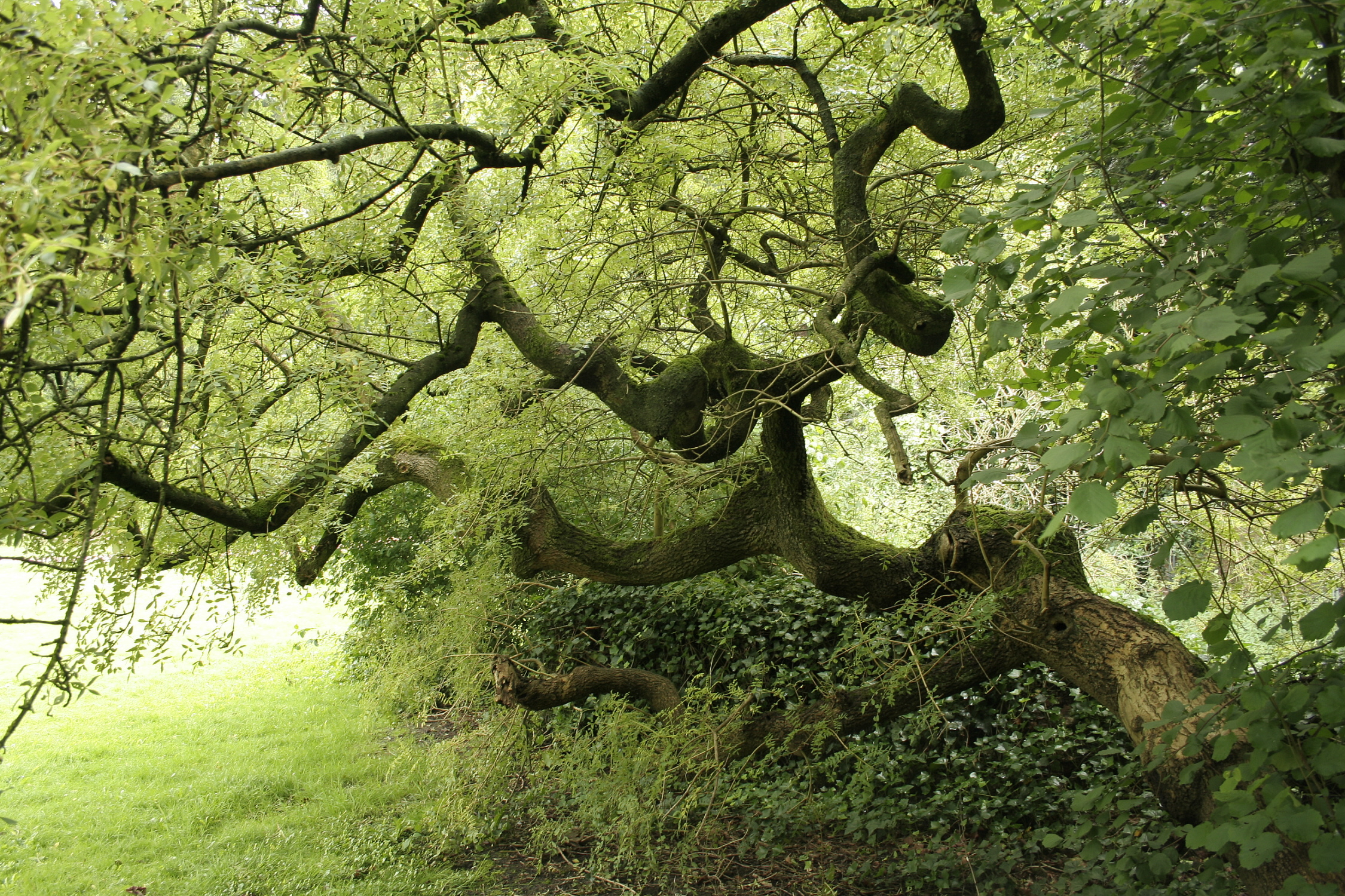 Weeping golden ash (Fraxinus excelsior Var. Aurea pendula).